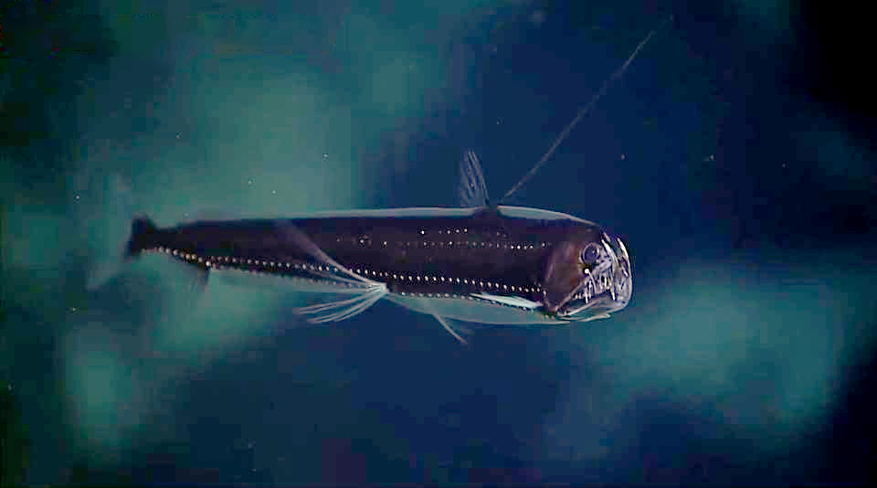 Chauliodus sp. observed in the abyss by NOAA mission Okeanos Explorer off Samoa islands in 2017.